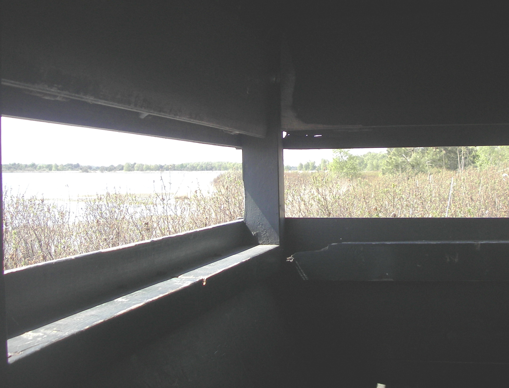 Lake Beuven seen from the inside of a birdwatchers' hut